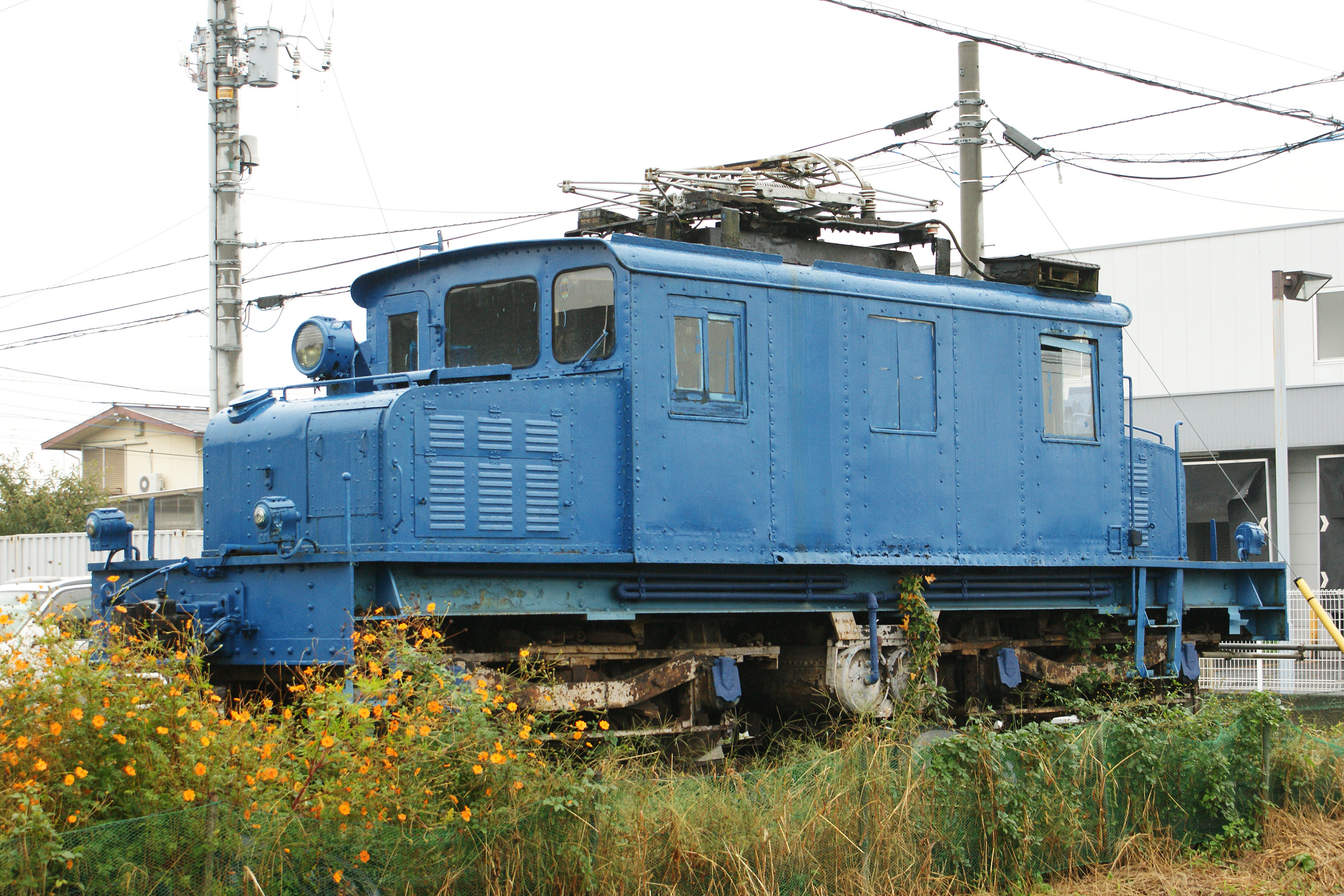 Chichibu Railway type Deki1 electric locomotive.